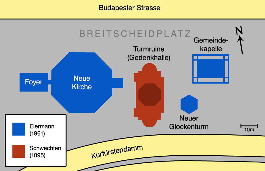 Today's layout of the buildings of the Kaiser-Wilhelm-Gedaechtniskirche in Berlin: remains of the old structure (1895) in red, buildings of the Eiermann additions (1961) in blue.